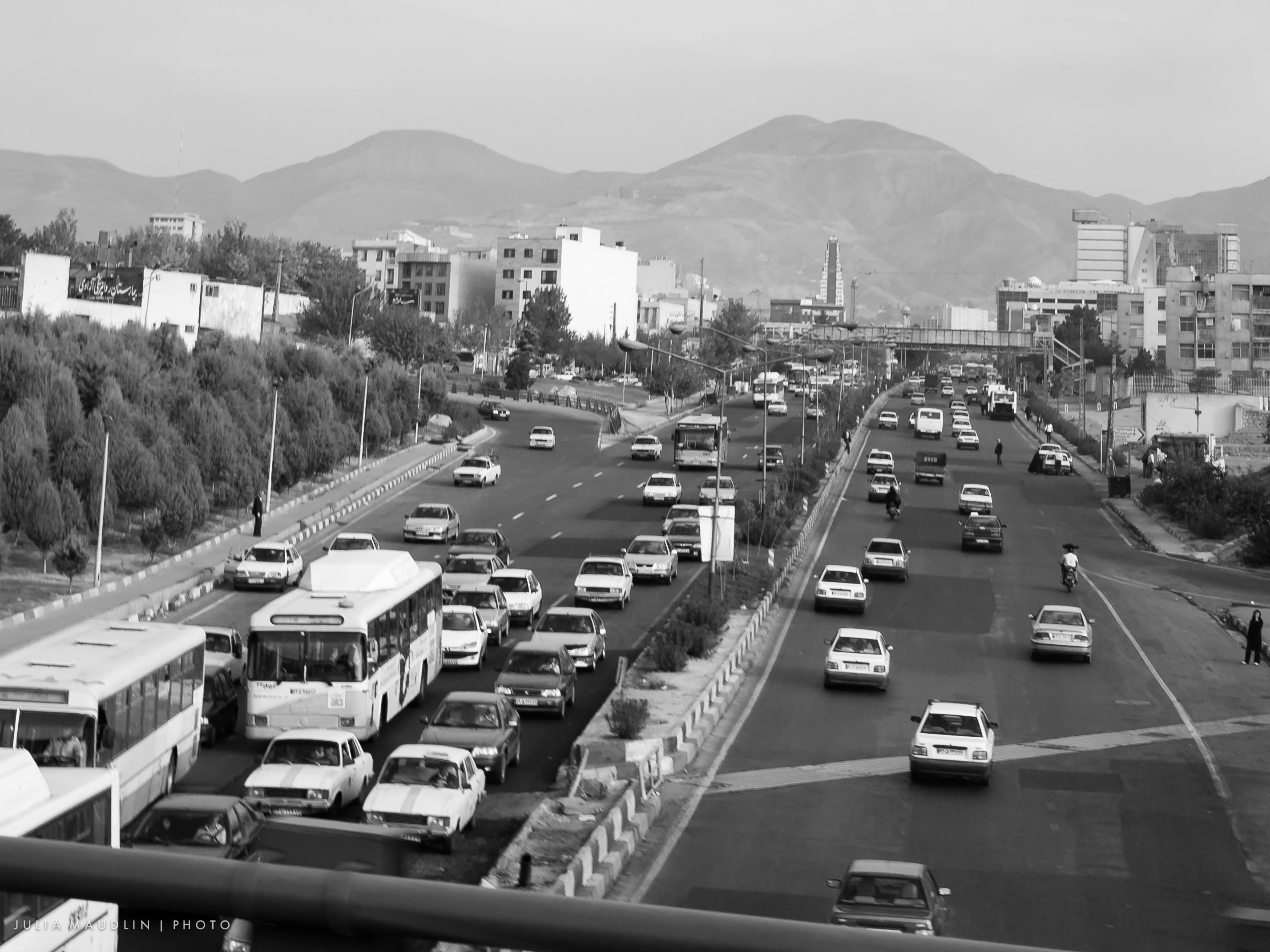 To the Mountains, Tehran, Iran